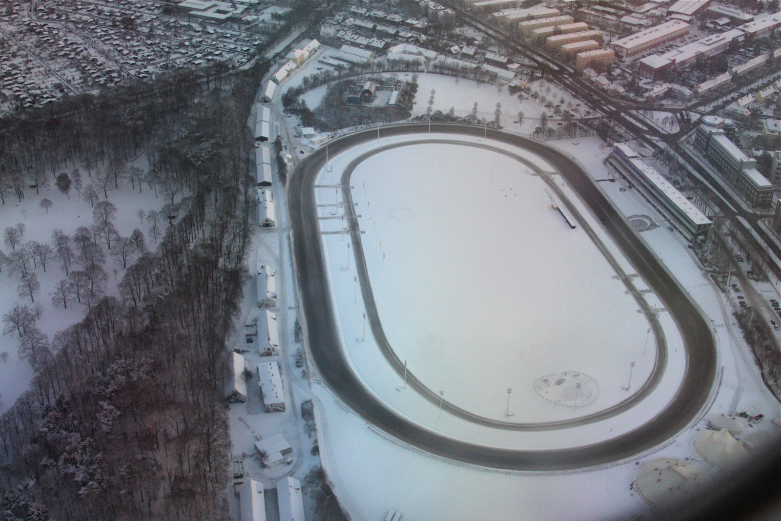 Trabrennbahn Bahrenfeld in snowy condition as seen from an airliner descending to HAM. Picture taken roughly facing the southern direction.